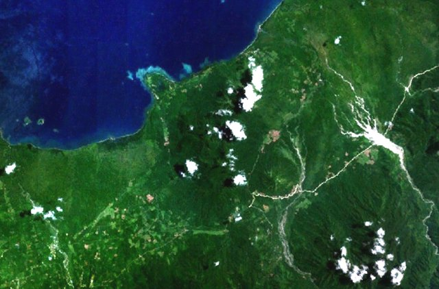 Forested volcanoes of the Sulu Range occupy the center of this NASA Landsat image (with north to the top) of west-central New Britain. This group of partially overlapping small stratovolcanoes and lava domes off Bangula Bay reaches heights of about 600 m. Mount Karai, also known as Mount Ruckenberg, lies on the NE side of the geochemically diverse, basaltic-to-rhyolitic complex. Kaiamu maar forms the peninsula extending about 1 km into Bangula Bay at the NW side of the Sulu Range.